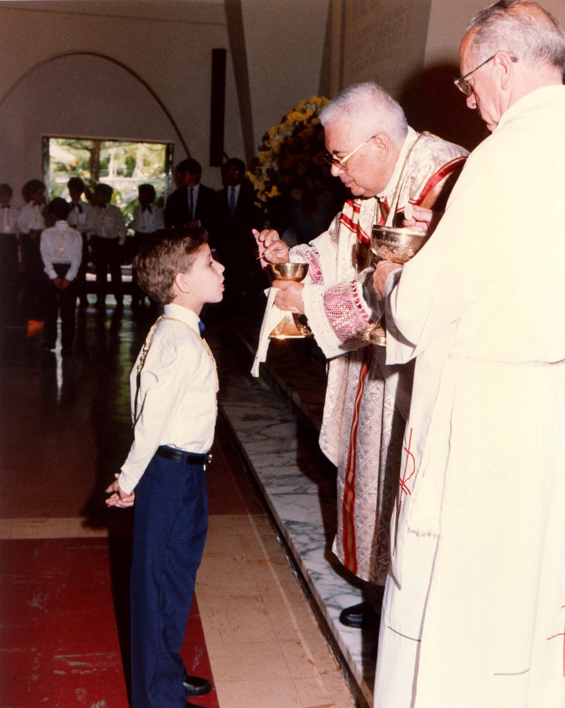 Roman Catholic Eucharist